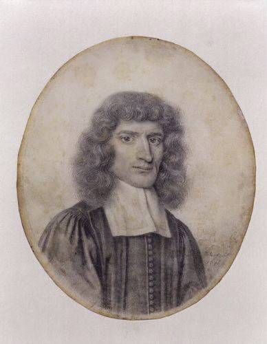 Isaac Barrow